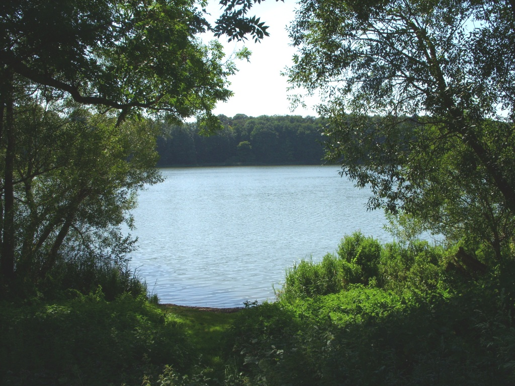 Lake Trebbower See near Klein Trebbow north of Schwerin, Mecklenburg-Vorpommern, Germany